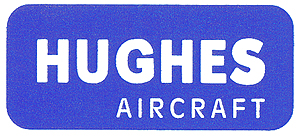 Hughes Aircraft Company logo